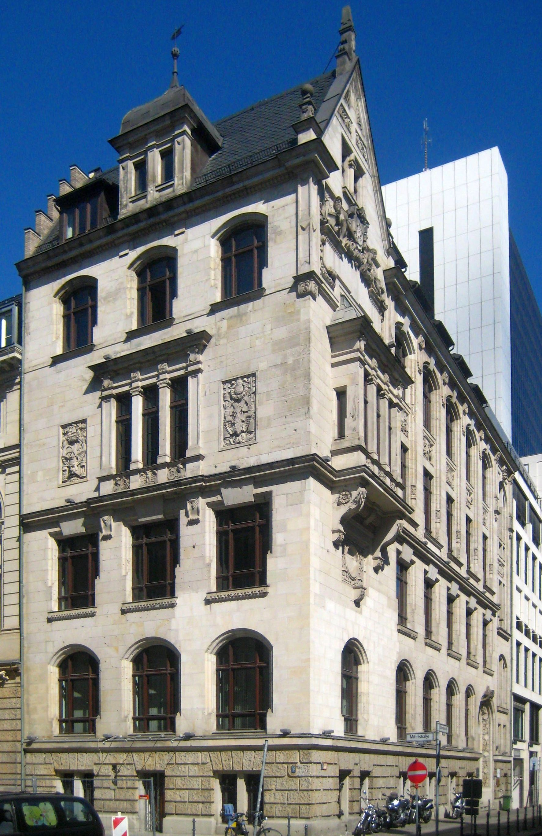 Das MAN-Haus in Berlin-Mitte, Charlottenstraße 43 (rechts) / Mittelstraße (links); Das Gebäude wurde 1896-1897 nach einem Entwurf der Berliner Architekten Konrad Reimer und Friedrich Körte für den Verein Deutscher Ingenieure gebaut. Die alte Unterteilung des auf einem schmalen Grundstück errichteten Gebäudes in (ursprünglich an eine Bank) vermietete Geschäftsräume im Erdgeschoss und im 1. Obergeschoss sowie die Vereinsräume ab dem 2. Obergeschoss ist an der Fassade ablesbar. Durch den Erker an der Charlottenstraße und das ähnlich gestaltete dreibahnige Fenster an der Mittelstraße wird der Sitzungsaal im 2. Obergeschoss besonders hervorgehoben. Der Reliefschmuck der Fassaden stammt vom Bildhauer Gotthold Riegelmann und nimmt Bezug auf die Berufsfelder des Ingenieurs. Im Inneren ist die bauzeitliche Ausstattung zum Teil sehr gut erhalten, so im Treppenhaus und im Sitzungssaal. Das Gebäude wurde 1918 von der MAN gekauft und bis 1950 für ihr technisches Büro genutzt. Danach saß hier der Fachbereich Germanistik der Humboldt-Universität. Das Gebäude befindet sich seit 1993 wieder im Besitz der MAN, die es von 1993-1995 renovieren ließ und ihre Außenstelle Berlin hier einrichtete. Außerdem sitzt hier unter anderem das Berliner Büro des Afrika-Vereins der deutschen Wirtschaft. Das Gebäude steht unter Denkmalschutz.